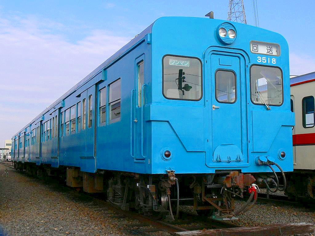 Kanto Railway Type Kiha300（3518） Diesel railcar(Japan). 関東鉄道キハ300形気動車キハ3518 水海道車両基地にて公道より撮影。